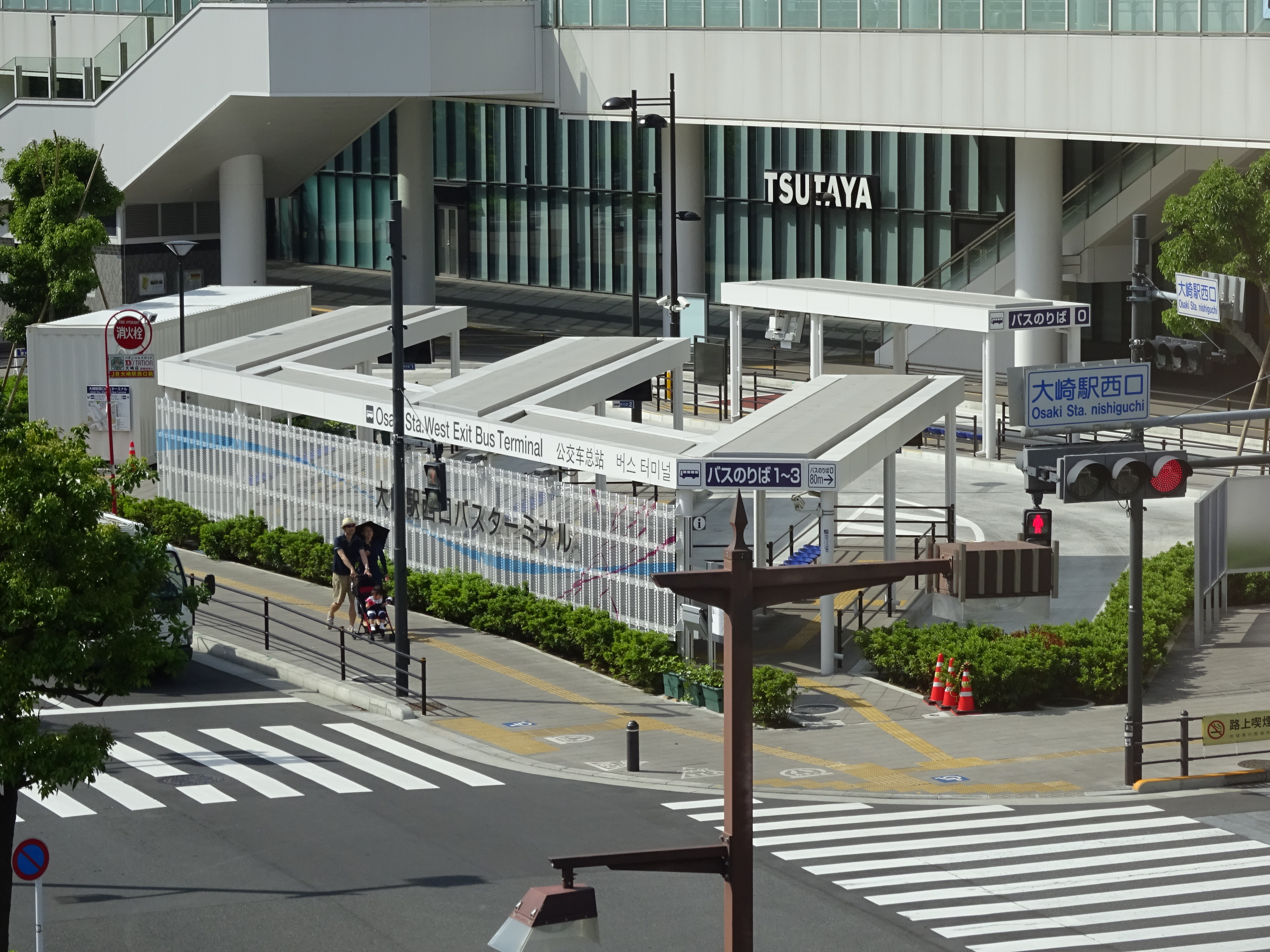 Ōsaki Station West exit bus terminal